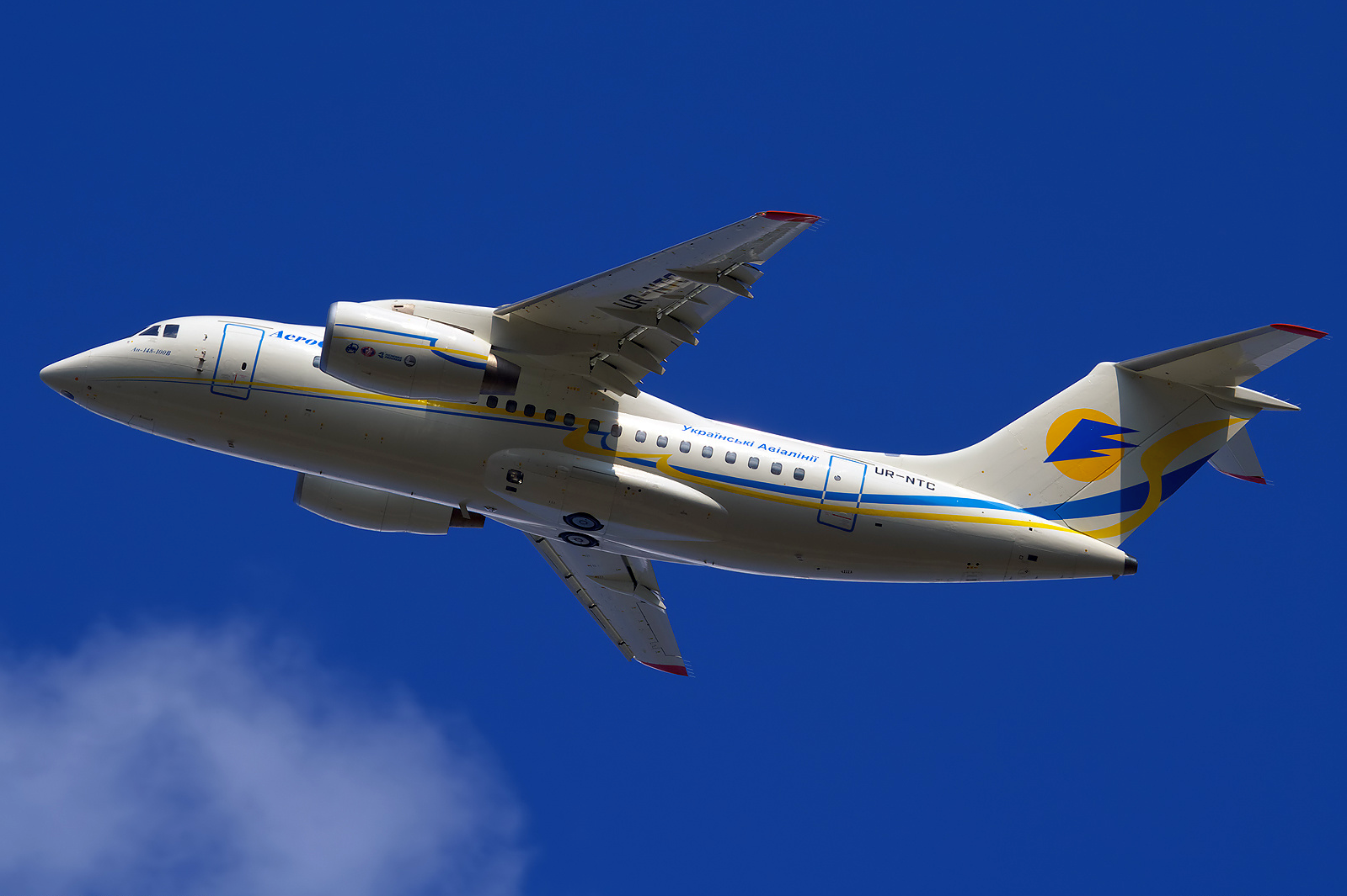 An AeroSvit Ukrainian Airlines Antonov An-148-100B departed from Gostomel Airport (UKKM)